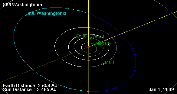 886 Washingtonia orbit, and his position on 01 Jan 2009 (NASA Orbit Viewer applet)